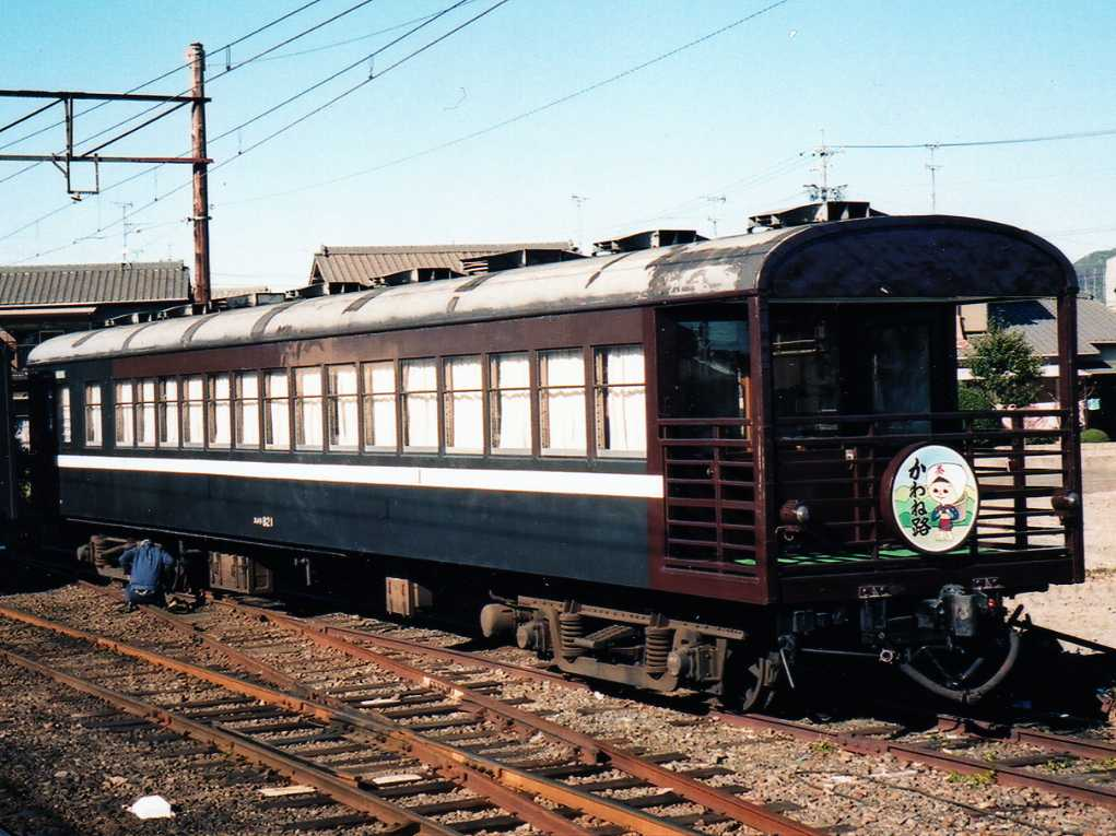 Passenger car Type Suite 82 of Oigawa Railway.